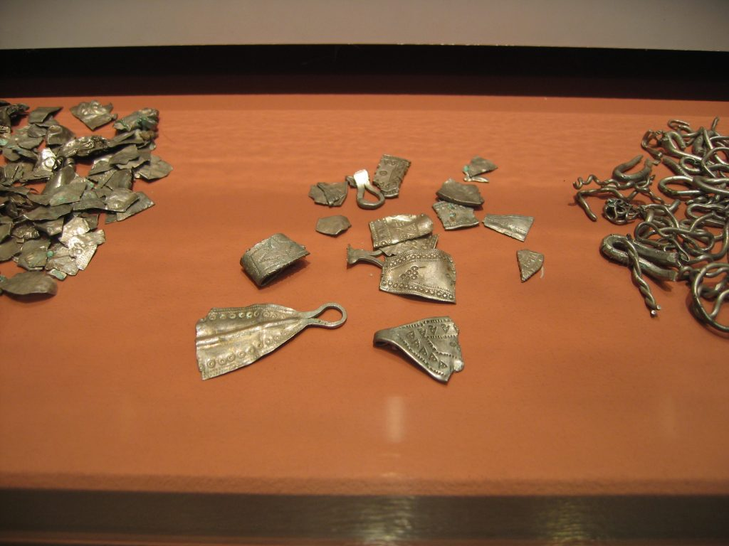 Hack silver from the medieval period